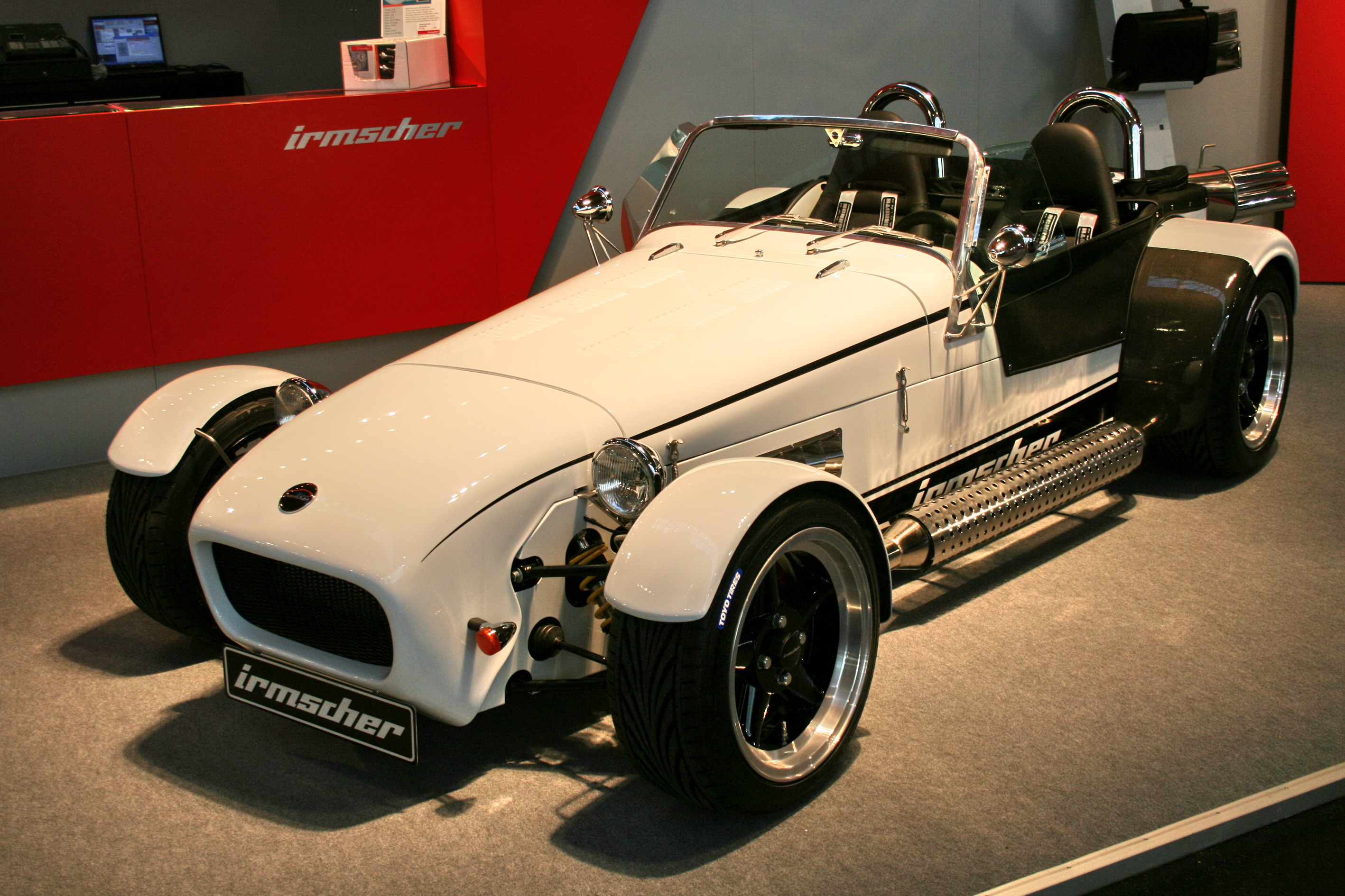 An Irmscher 7